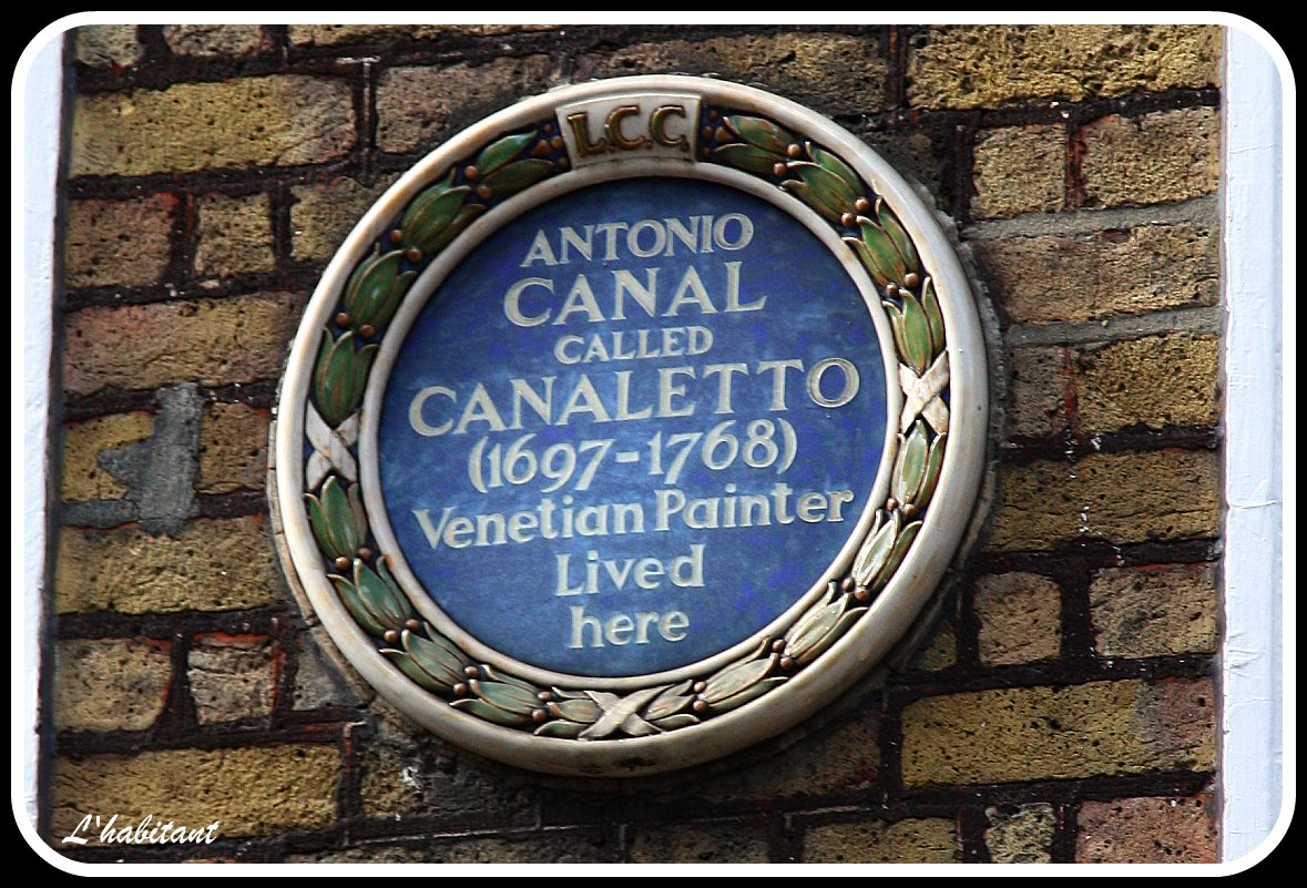 Beautifully finished and gilded. The days of the LCC, before London's Governance became quite so 'improved'. In Beak Street, W1